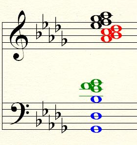 Picture for article